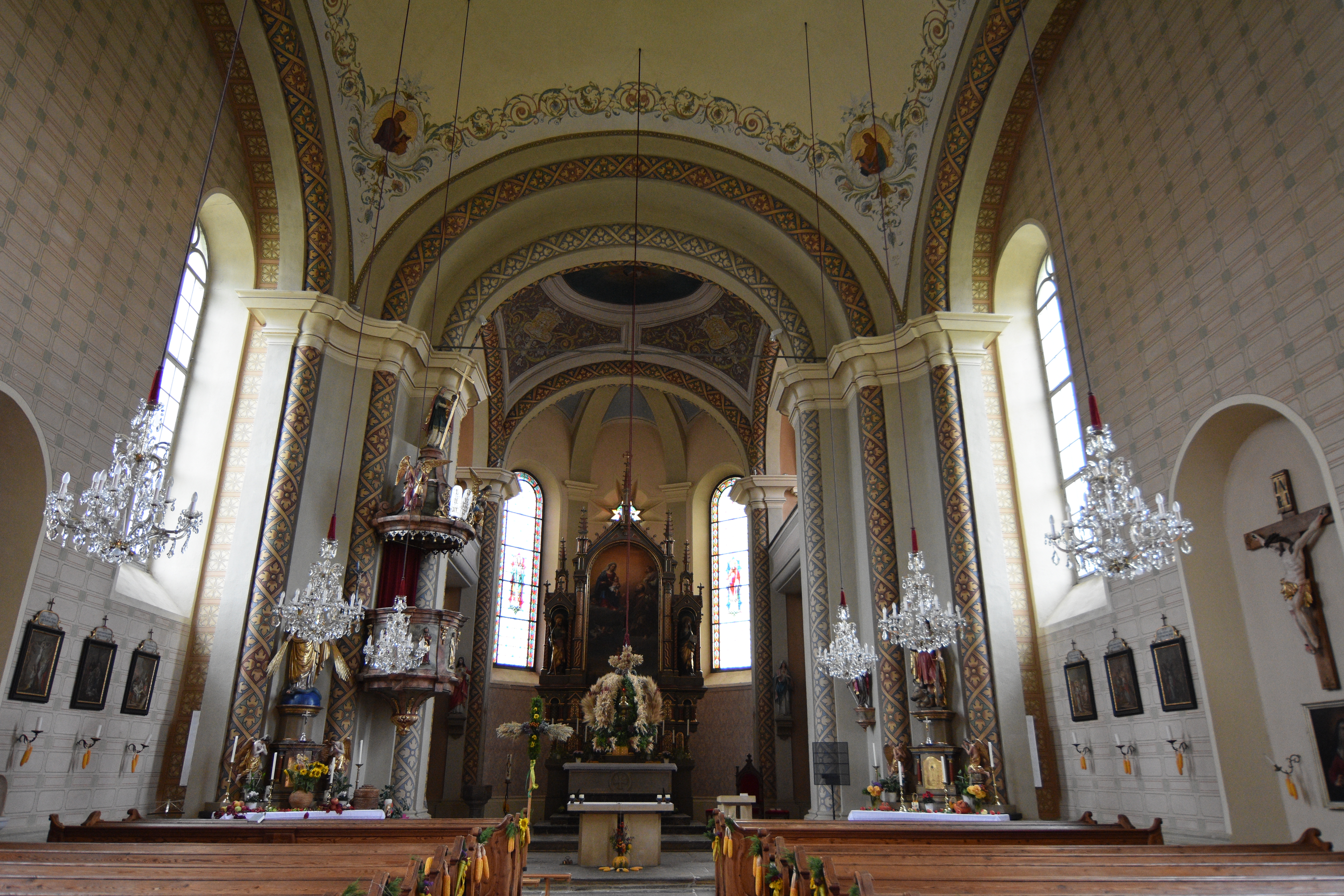 Church Pfarrkirche Sankt Josef (Weststeiermark) - Interior